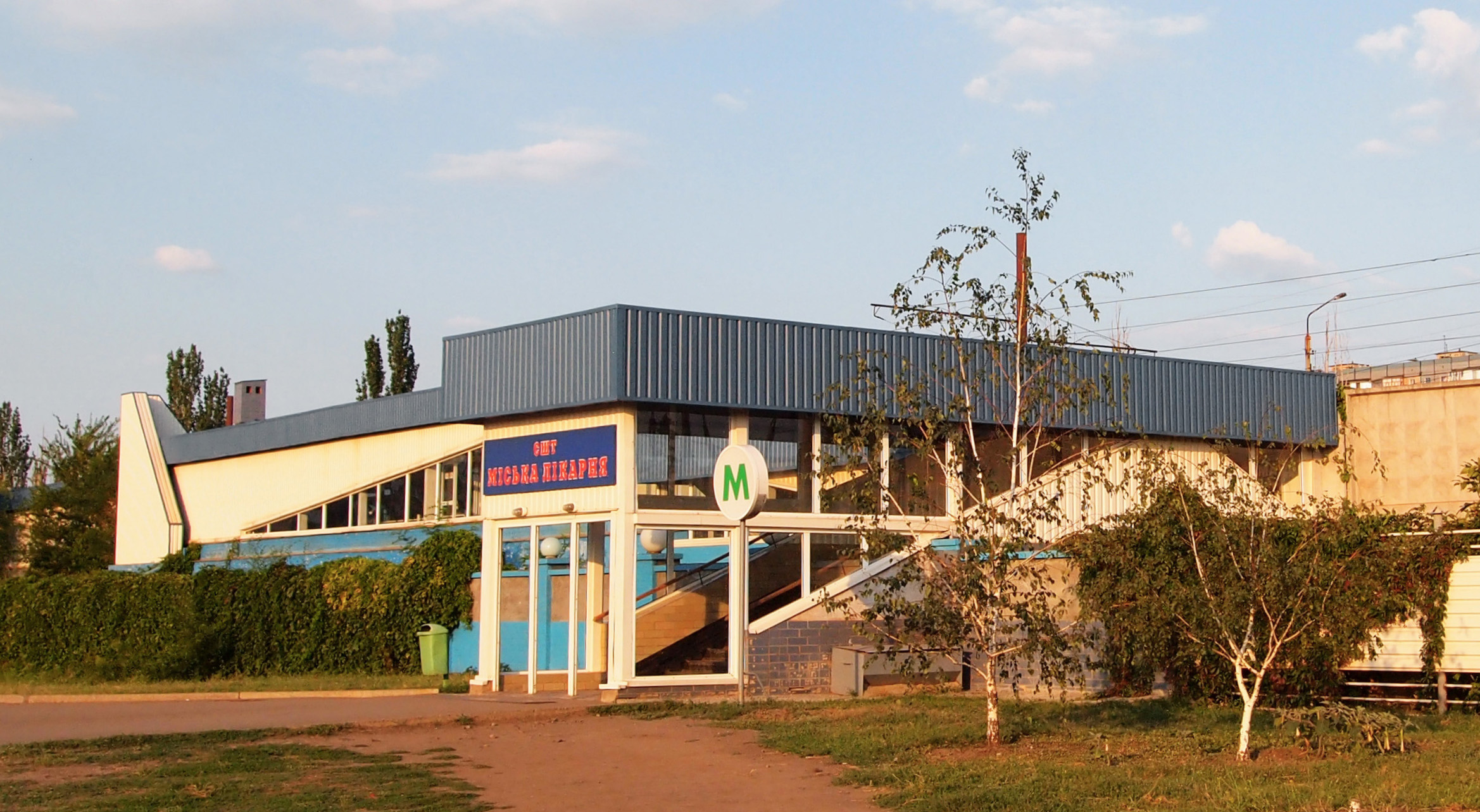 Miska Likarnia metro station in Kryvyi Rih. This photograph was taken with an Olympus E-PL1